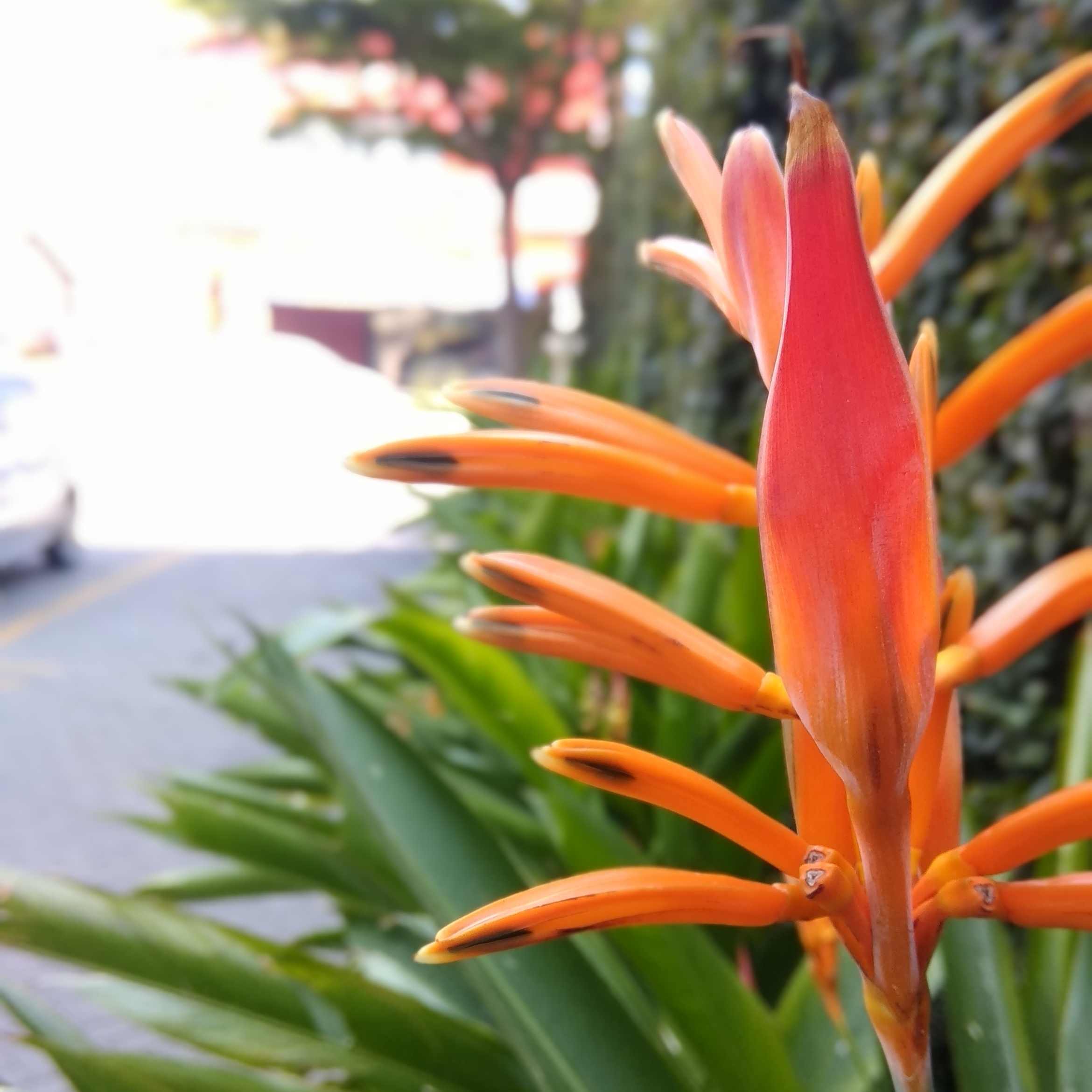 Heliconia psittacorum